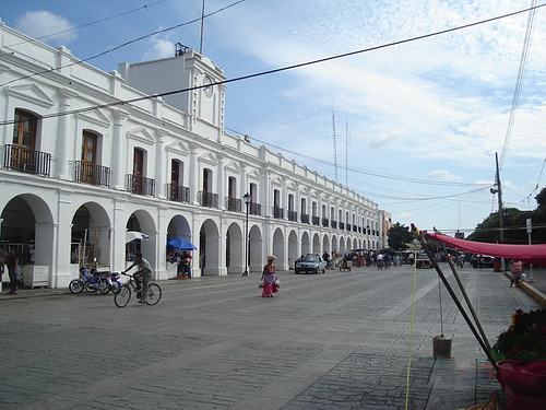 City Hall of Juchitan city, in the state of Oaxaca, México.